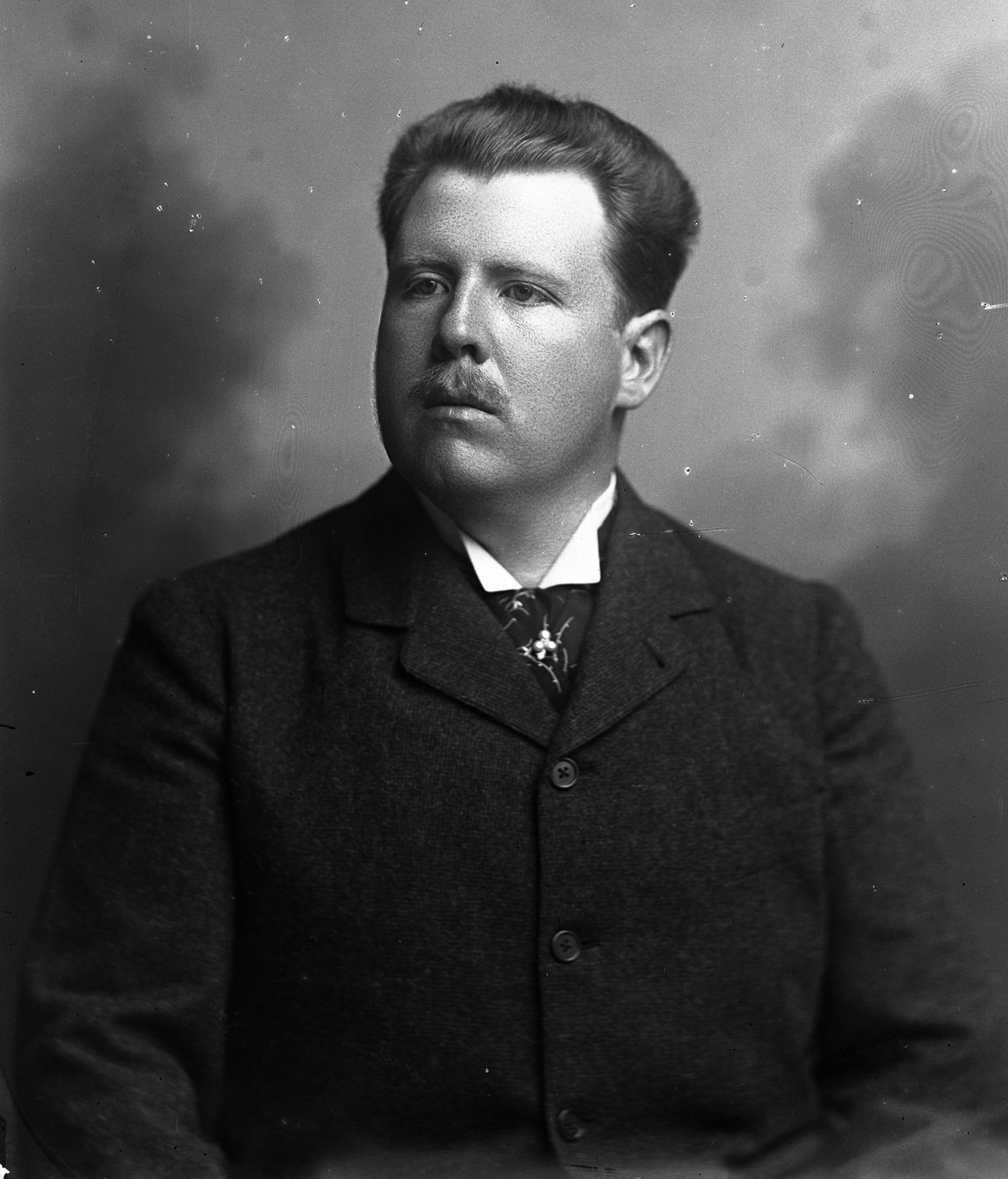 José Maria de Alpoim (1858-1916), Portuguese politician.